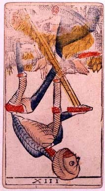 An original card from the tarot deck of Jean Dodal of Lyon, a classic Tarot of Marseilles deck which dates from 1701-1715. From File:Jean Dodal Tarot trump 13.jpg